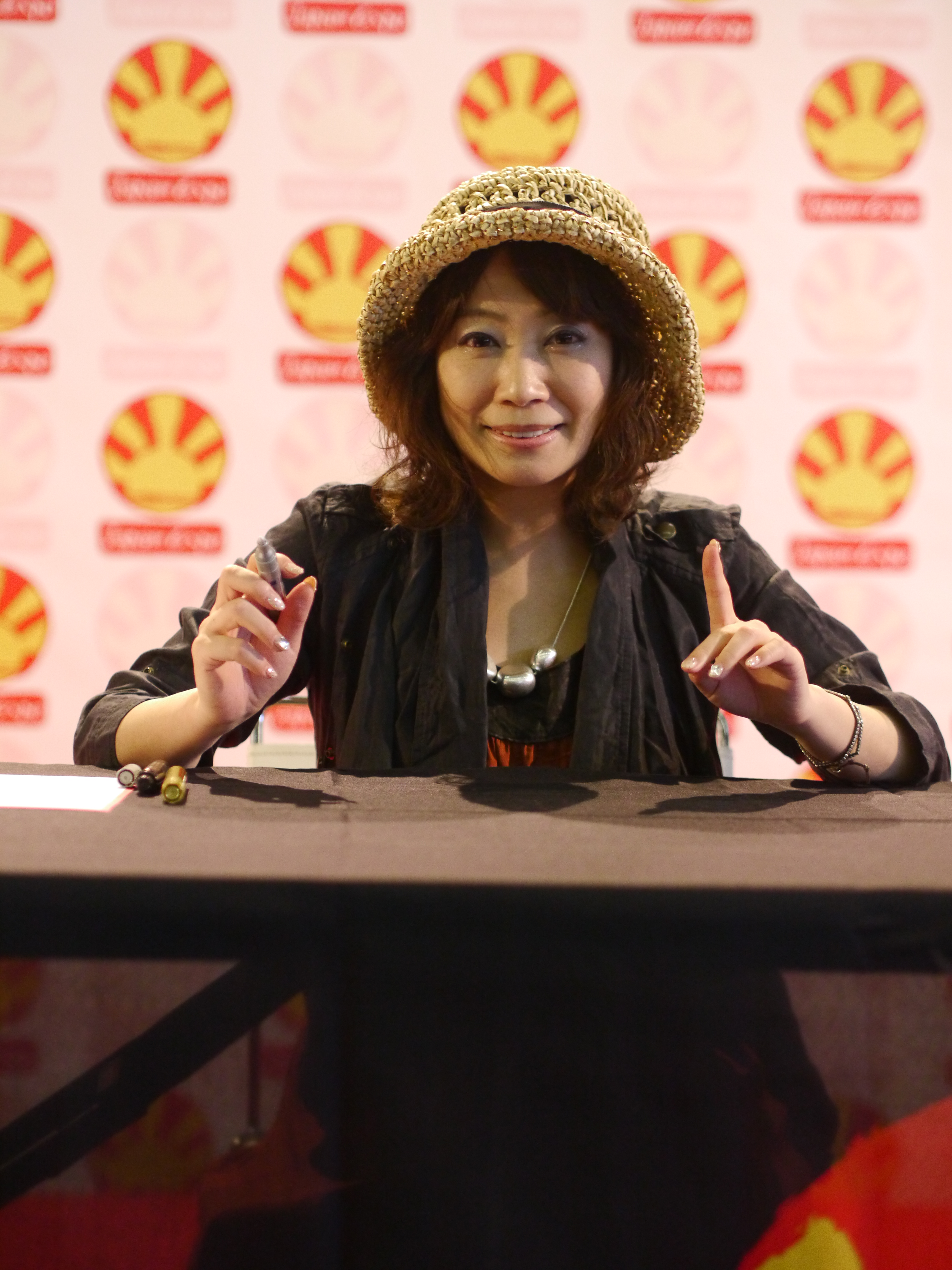 Japan Expo Festival, 14th impact